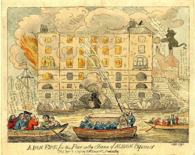 Illustration by Samuel William Fores regarding the fire that destroyed the Albion Mills, London, in 1791. Fores was a publisher and illustrator living between 1761 and 1838. Fores, the son of a cloth merchant, began publishing his works in 1783; his specialty was caricature prints.